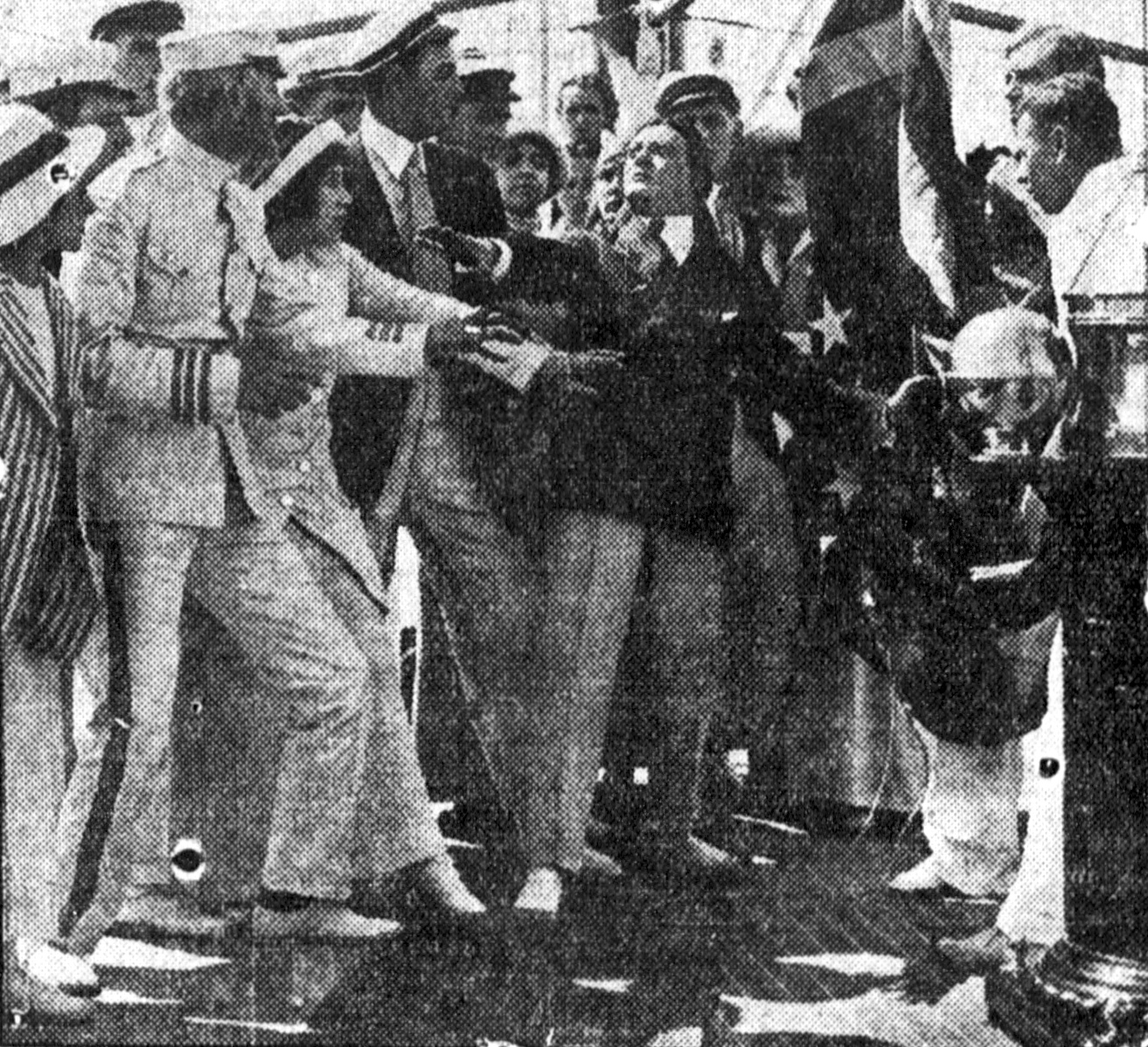 Brewster's Millions was a 1914 American comedy film directed by Oscar Apfel and Cecil B. DeMille and starred Edward Abeles. This is a scene from a newspaper.